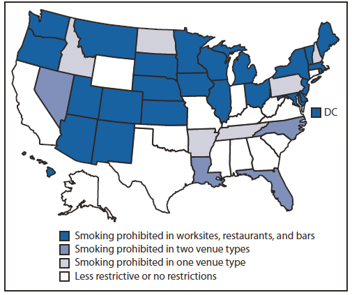 The figure above shows state smoke-free indoor air laws in effect for private worksites, restaurants, and bars in the United States as of December 31, 2010. Of note, only three southern states (Florida, Louisiana, and North Carolina) have laws that prohibit smoking in any two of the three venues examined in this report, and no southern state has a comprehensive state smoke-free law in effect.